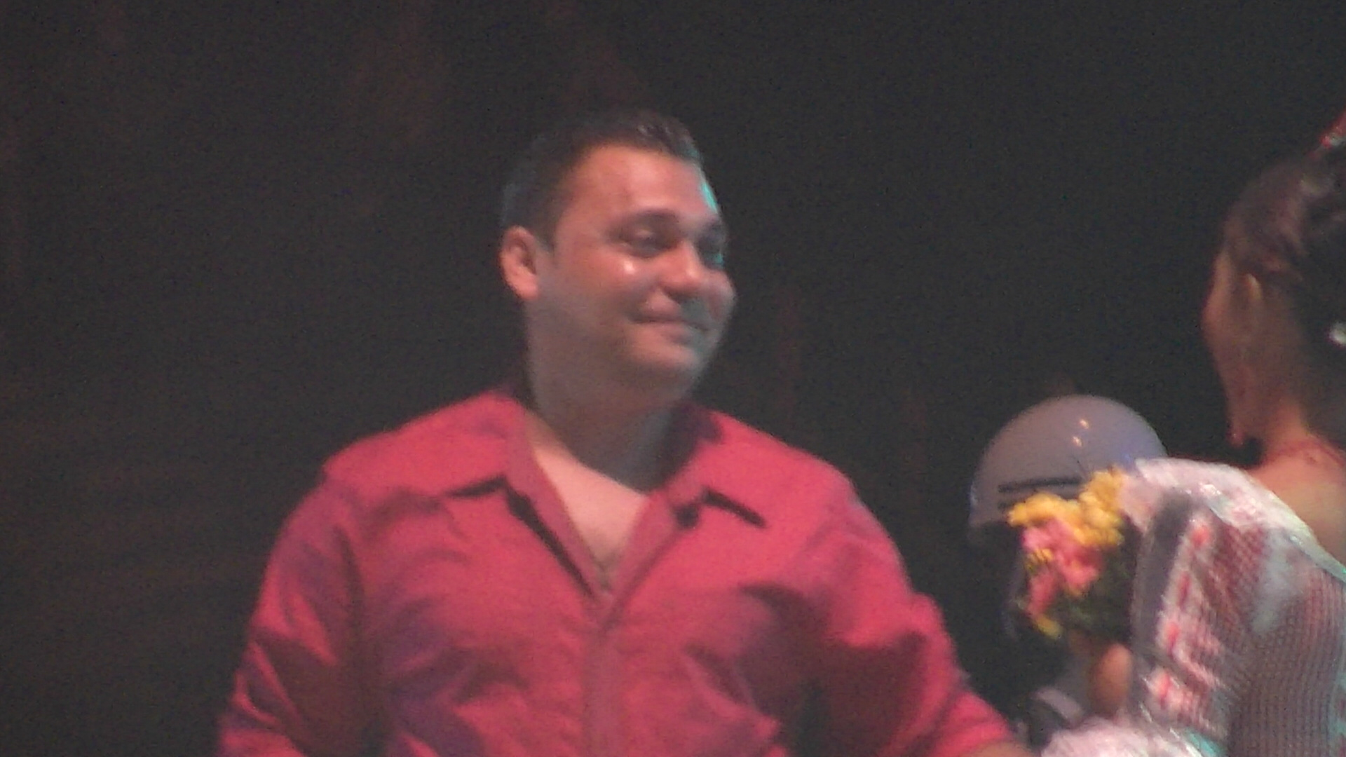 Jean Carlos Festival Vallenato 42.